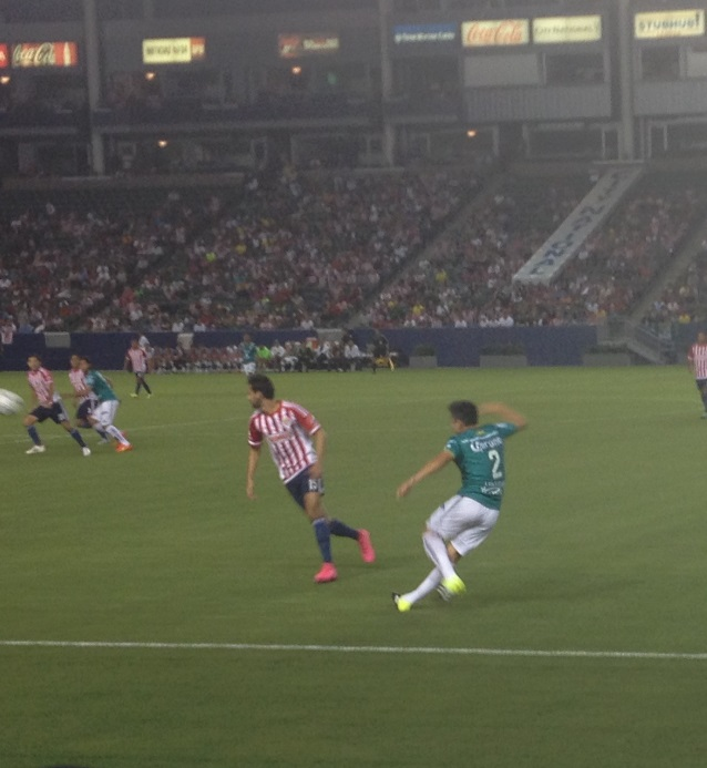 López (left) fighting for the ball against León's Efrain Velarde (right).